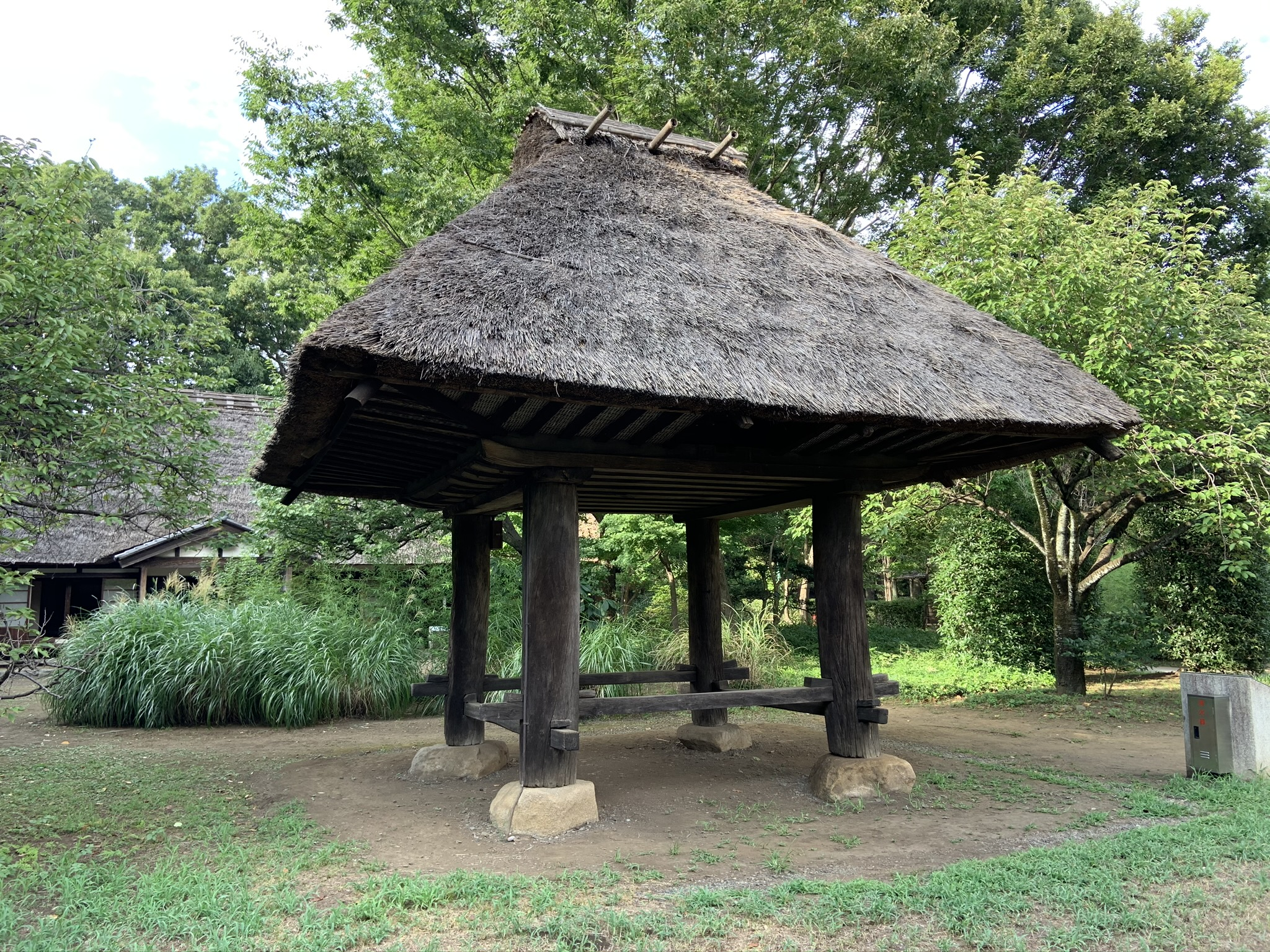 Granary in Amami Ōshima Island. This photo was taken at Edo-Tokyo Open Air Architectural Museum, Koganei City, Tokyo on August 23, 2020.